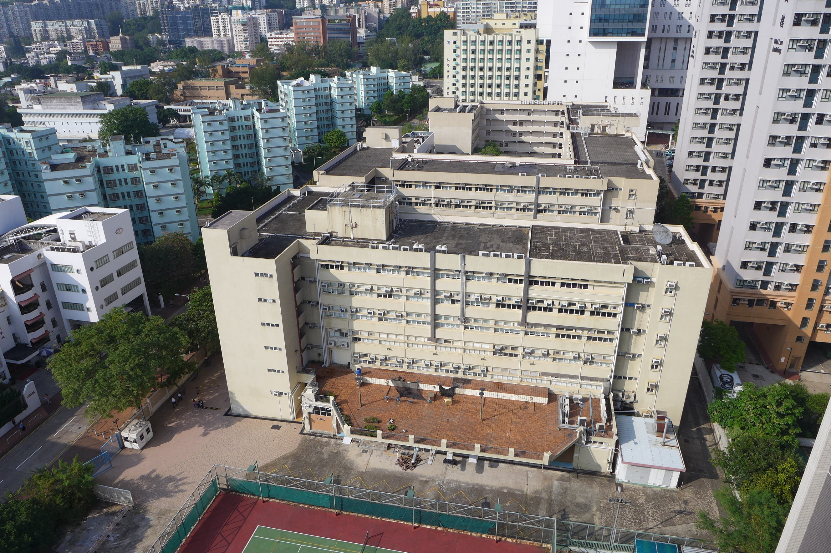 IVE Lee Wai Lee Campus overview